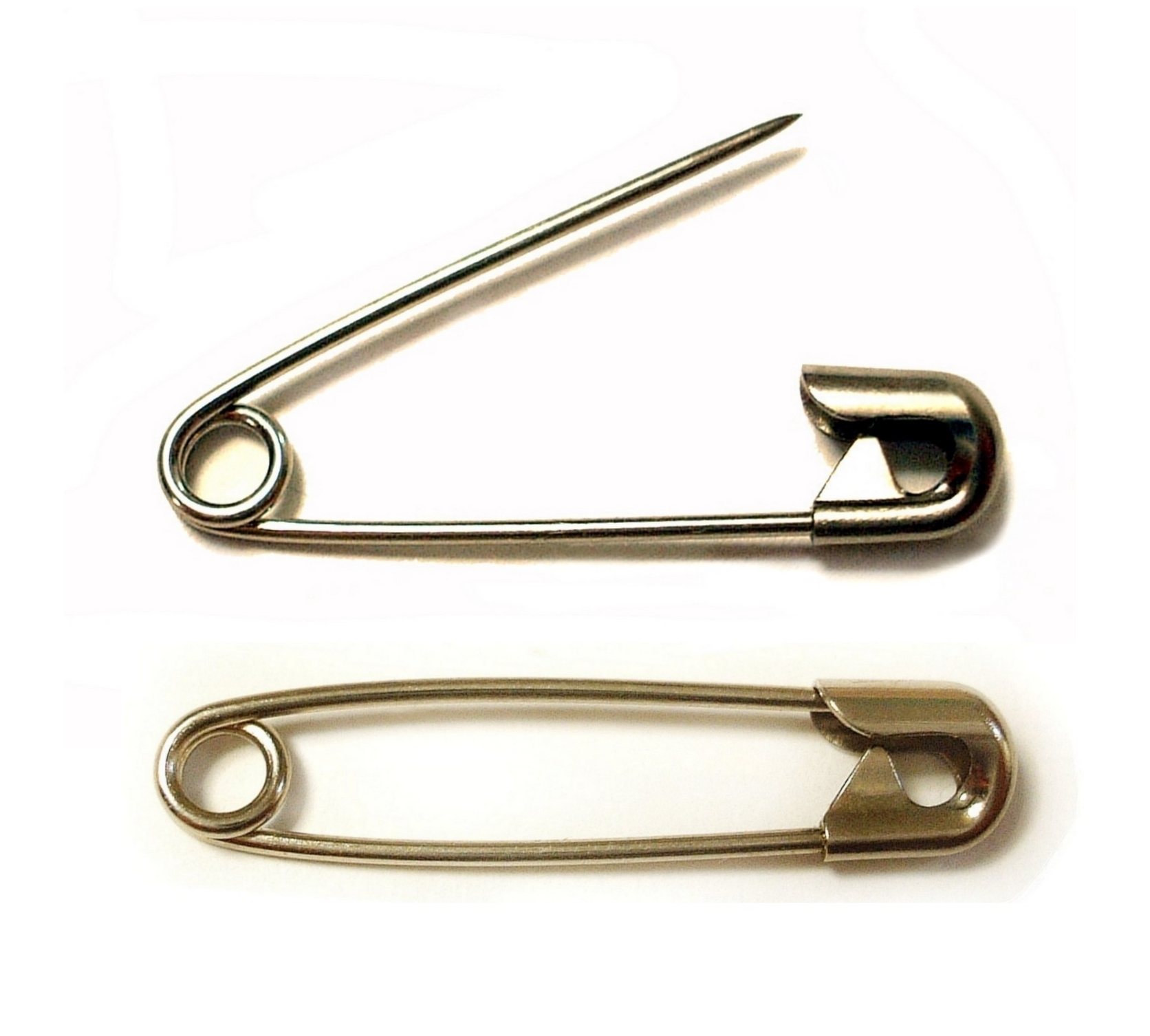 Open and closed safety pin